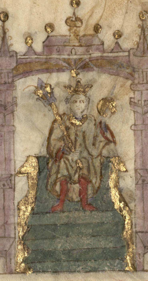 Alfonso XI of Castile